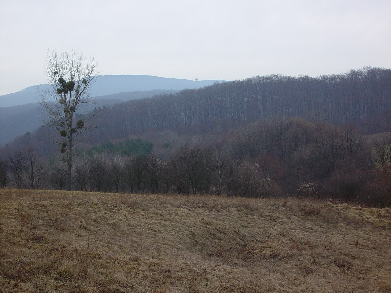 Landscape in the Bakony.